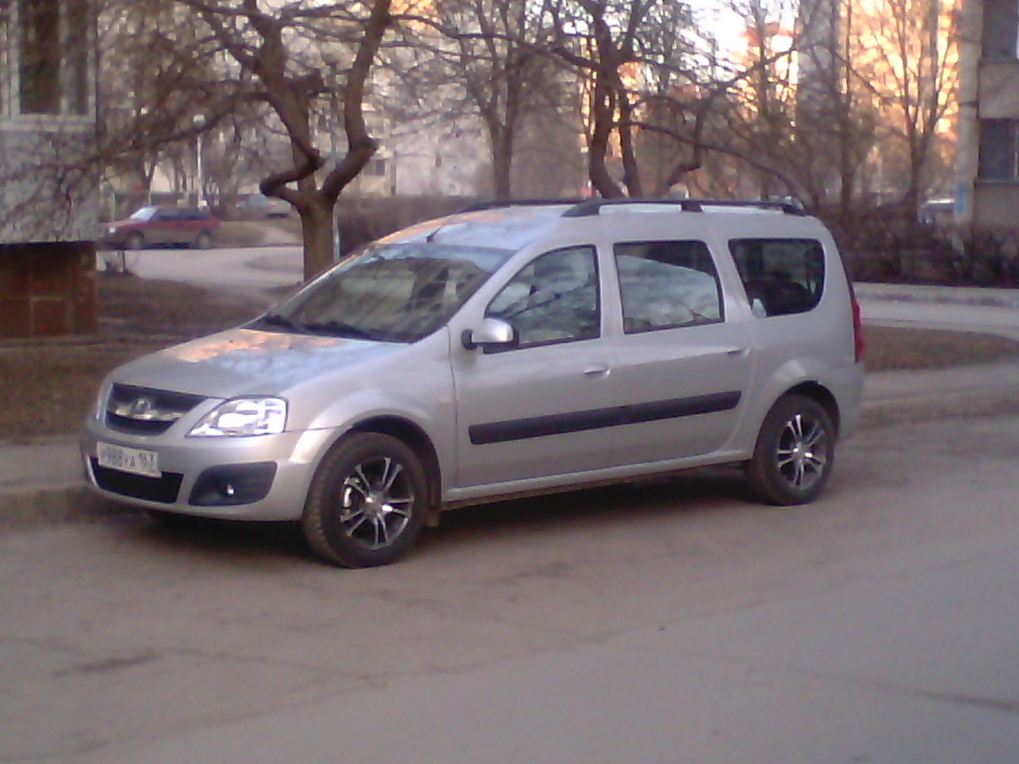 Car Lada Largus, in the yard of the streets in the city of Tolyatti, Russia